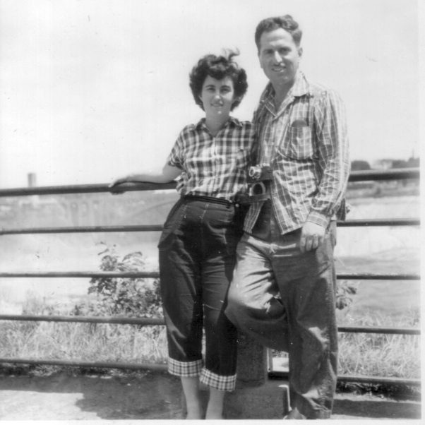 Pnina Gary and her husband Robert Gary in America.